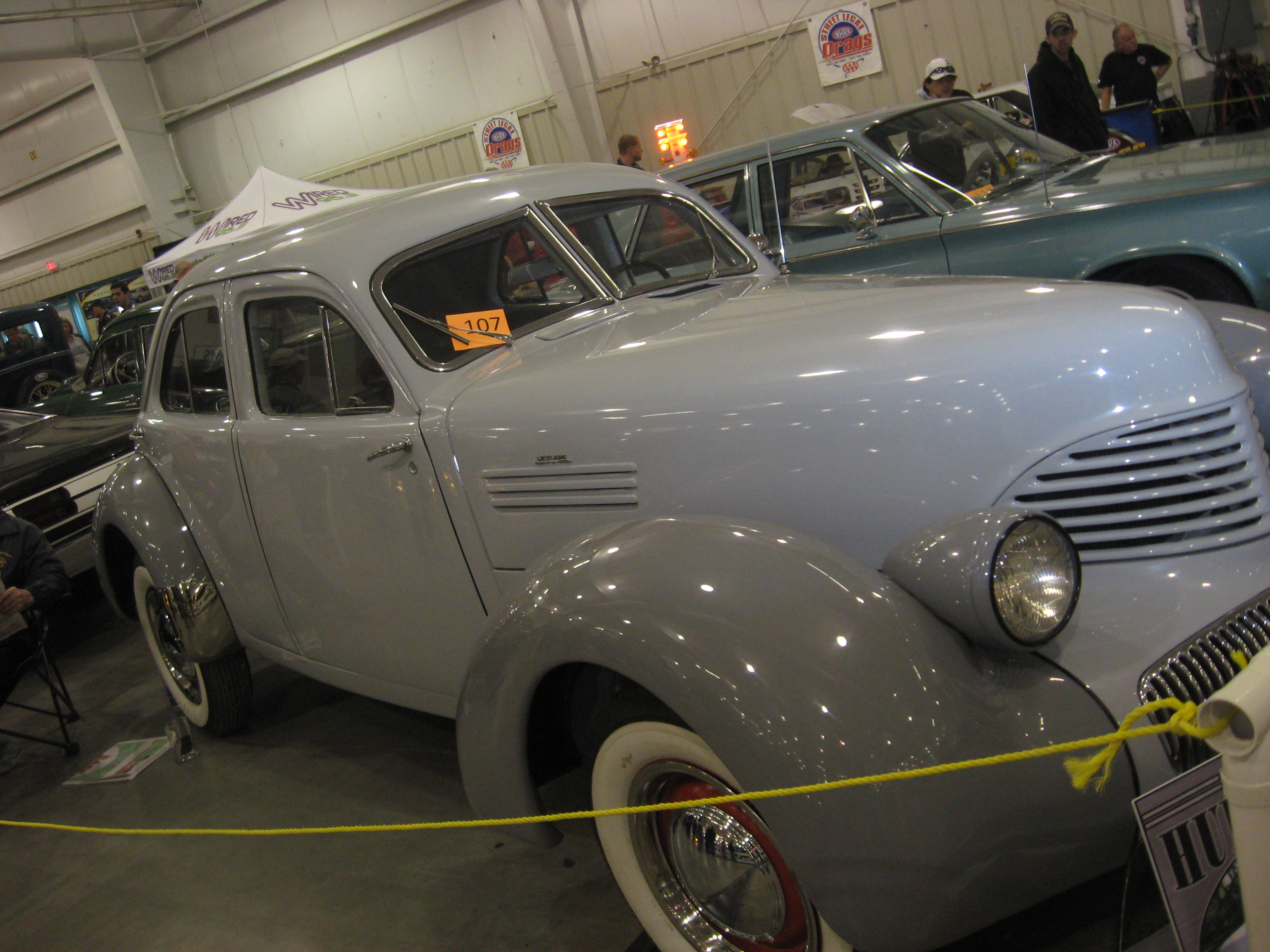 side view of '41 Hupp Skylark (body dies from '36 Cord 810), shot at Draggins 50h Anniversary show, Prairieland Exhibition building, 3 April 2010